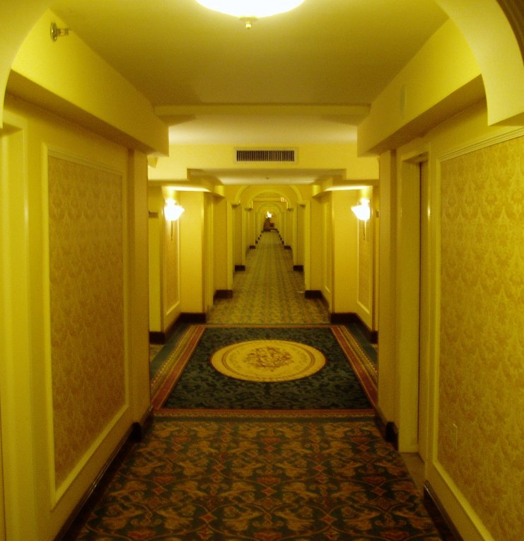 Hallway at the Royal York Hotel